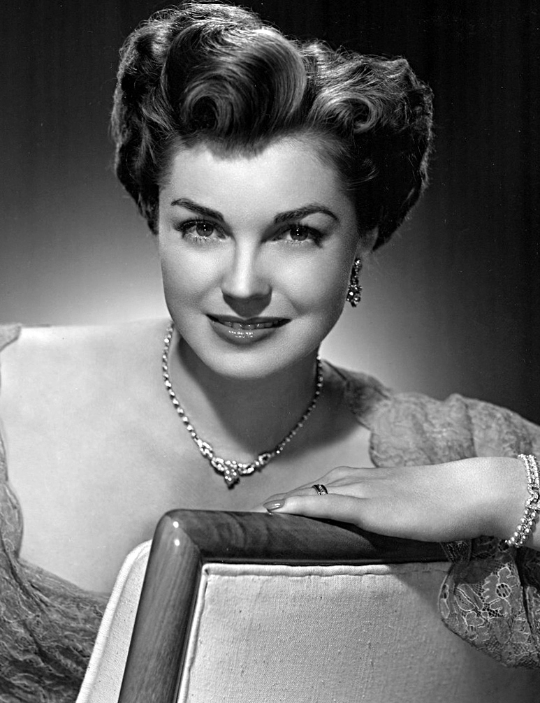 Publicity photo of Esther Williams.